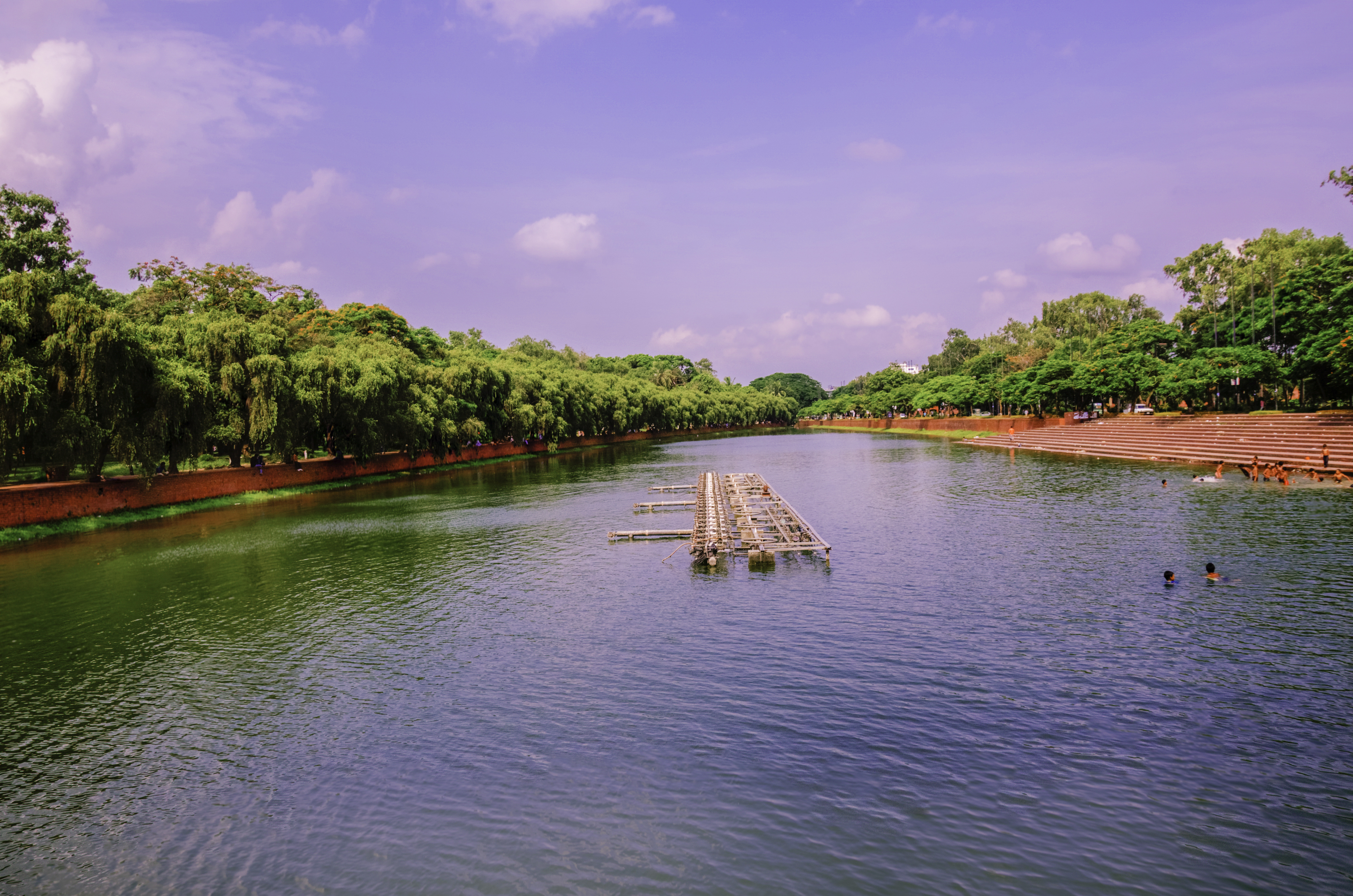 Crescent Lake at Chandrima Uddan, Dhaka, Bangladesh.